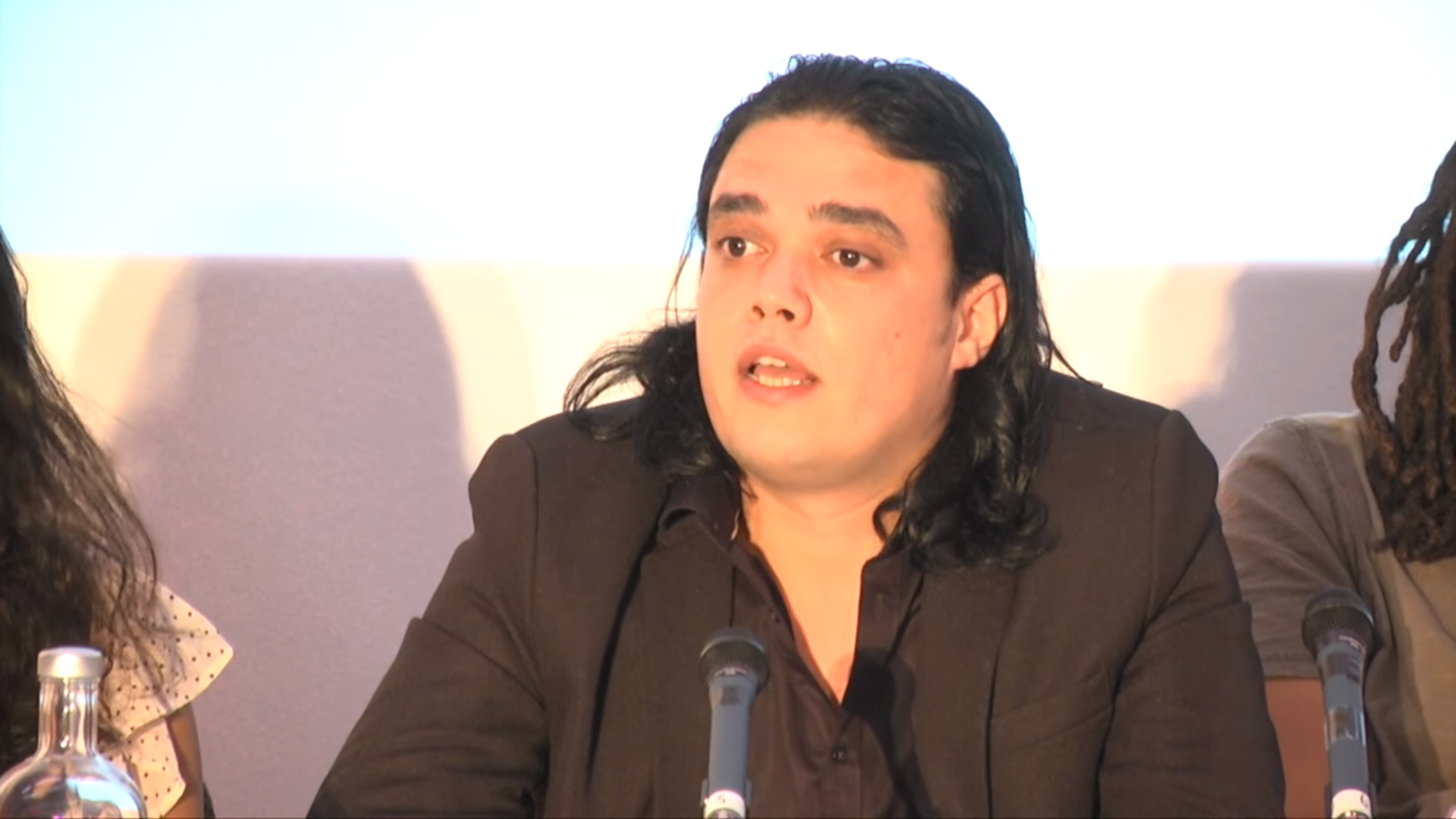 Waleed al-Husseini on Islam's Non-Believers Panel Discussion at the International Conference on Free Expression and Conscience, London, 22-24 July 2017 (#IWant2BFree).